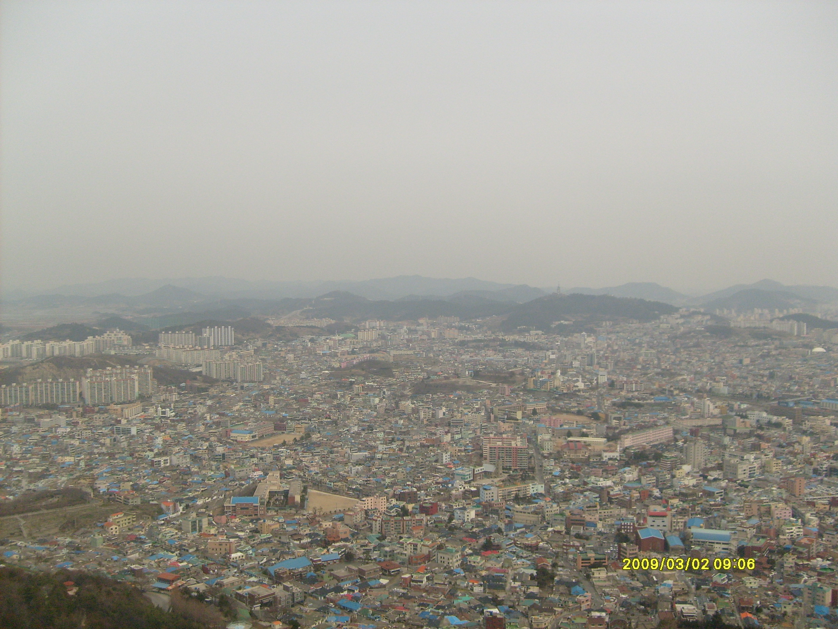 The scenery of Mokpo city which is taken at the top of Mt. Yudal